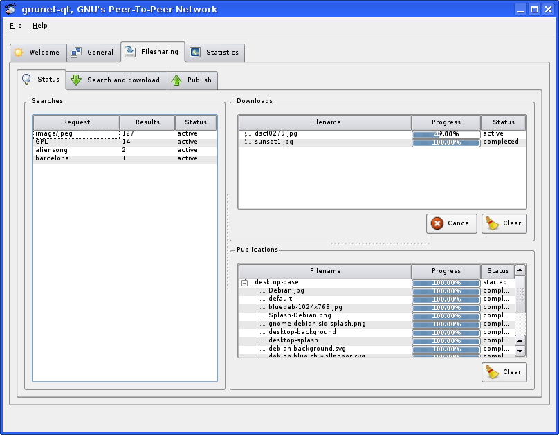 QT interface to GNUnet anonymous P2P, under KDE on Linux, English